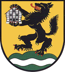 Coat of Arms of Wolkramshausen First upload in de-wp: J C D (01:11, 17. Jan. 2006)